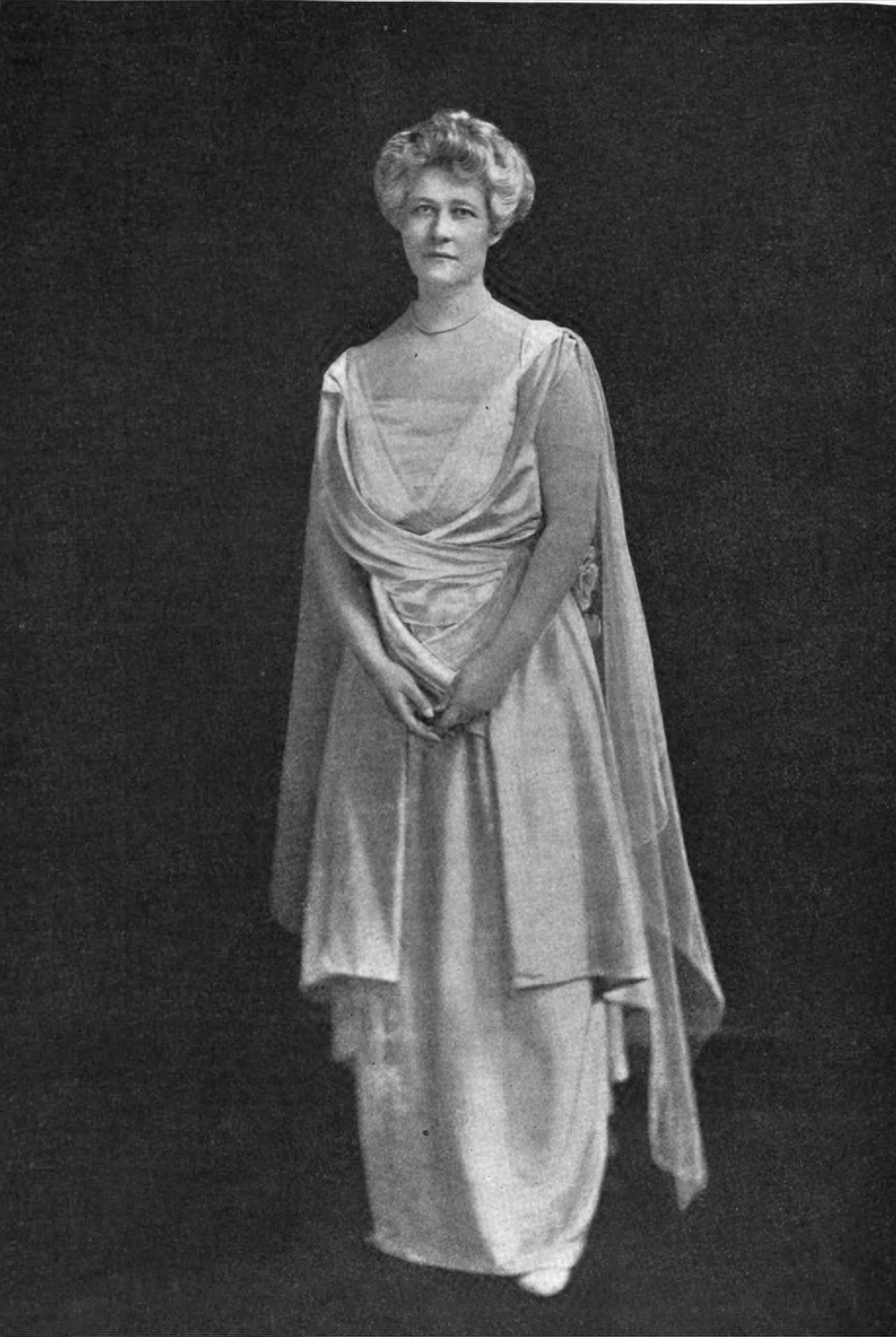 Eleanor Foster. Wife of Robert Lansing. Daughter of John W. Foster.